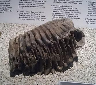 Palaeolithic mammoth tooth excavated at Swanscombe Heritage Park, Kent. Image taken when they were exhibited at the Natural History Museum in Summer 2014.